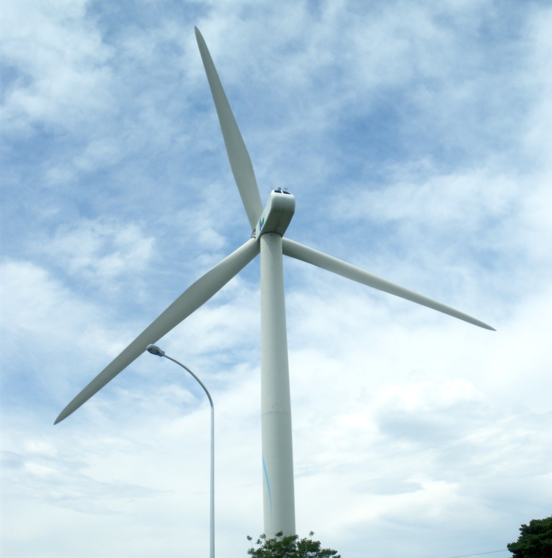 the wind generator at Wakasu Park(Koto,Tokyo)